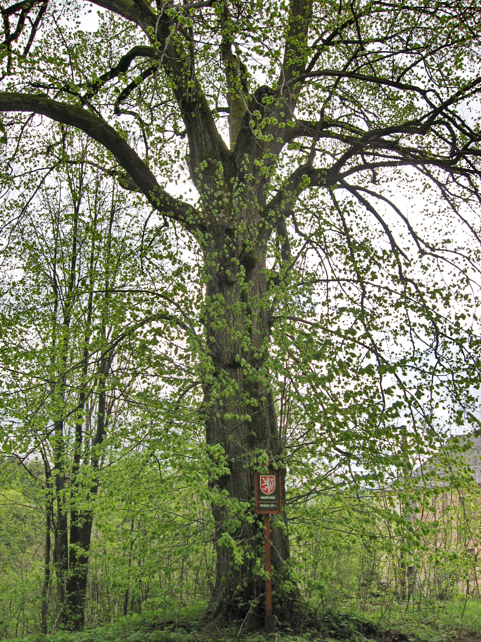 Large-leaved Limes (Tilia platyphyllos) by Pivoň u Mnichova, south-west of Poběžovice, Domažlice District, Czech Republic